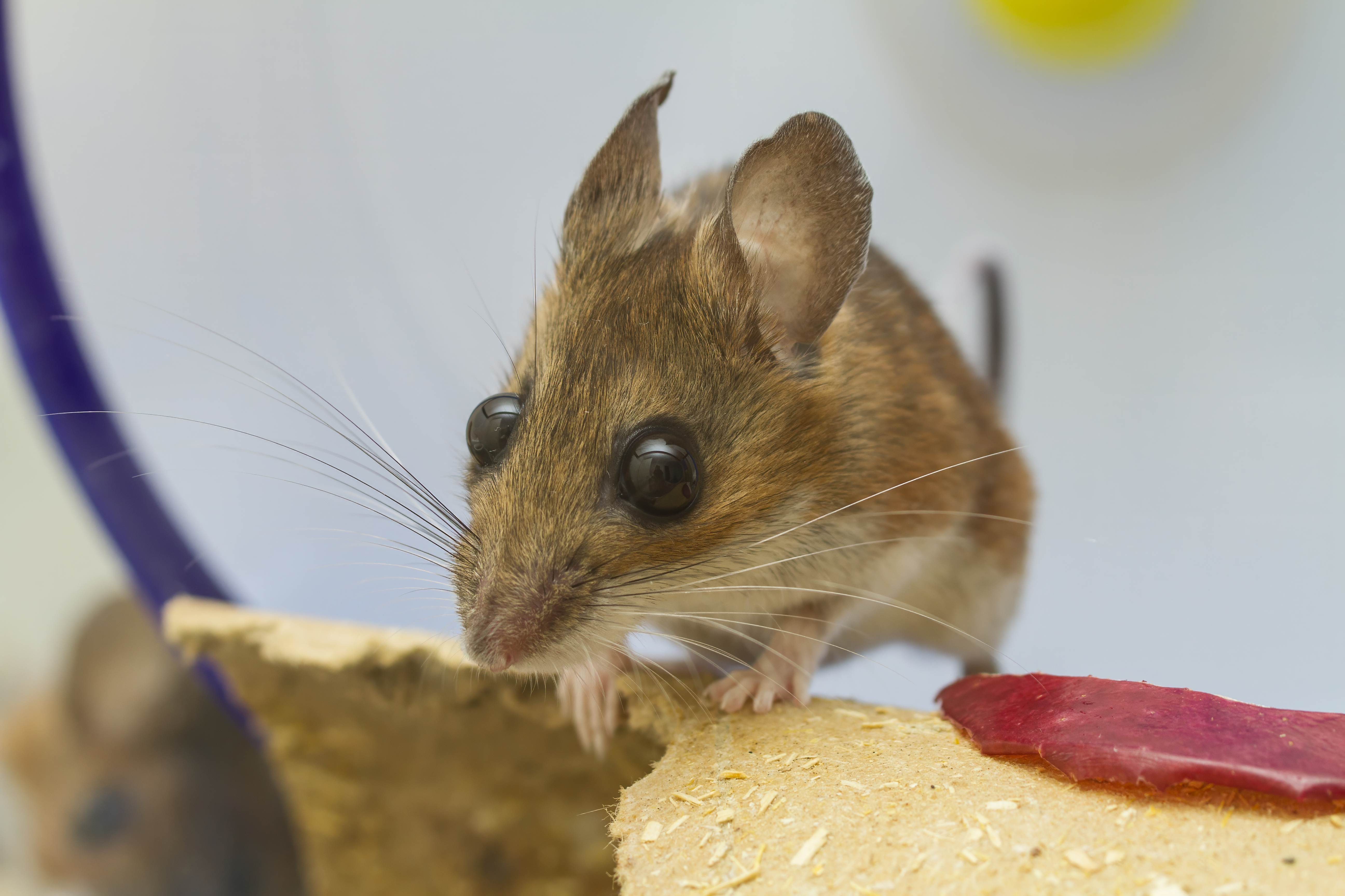 This is a White-Footed mouse that I caught in my office on February 26, 2010. The photo was taken 10-16-13. She is t least 3 years and 8 months old.